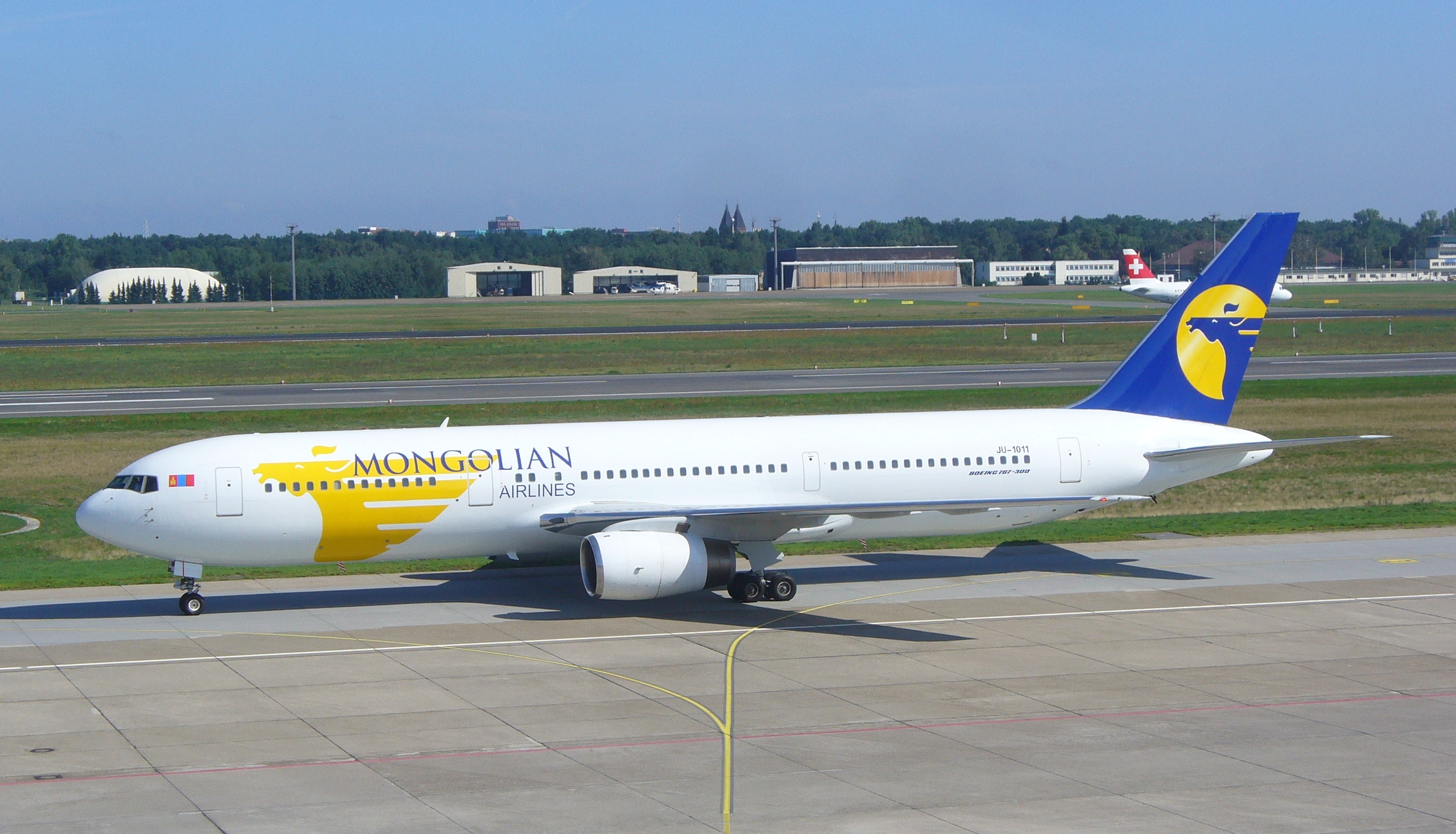 A Boeing 767-300ER of MIAT Mongolian Airlines (registered JU-1011) at Berlin Tegel Airport